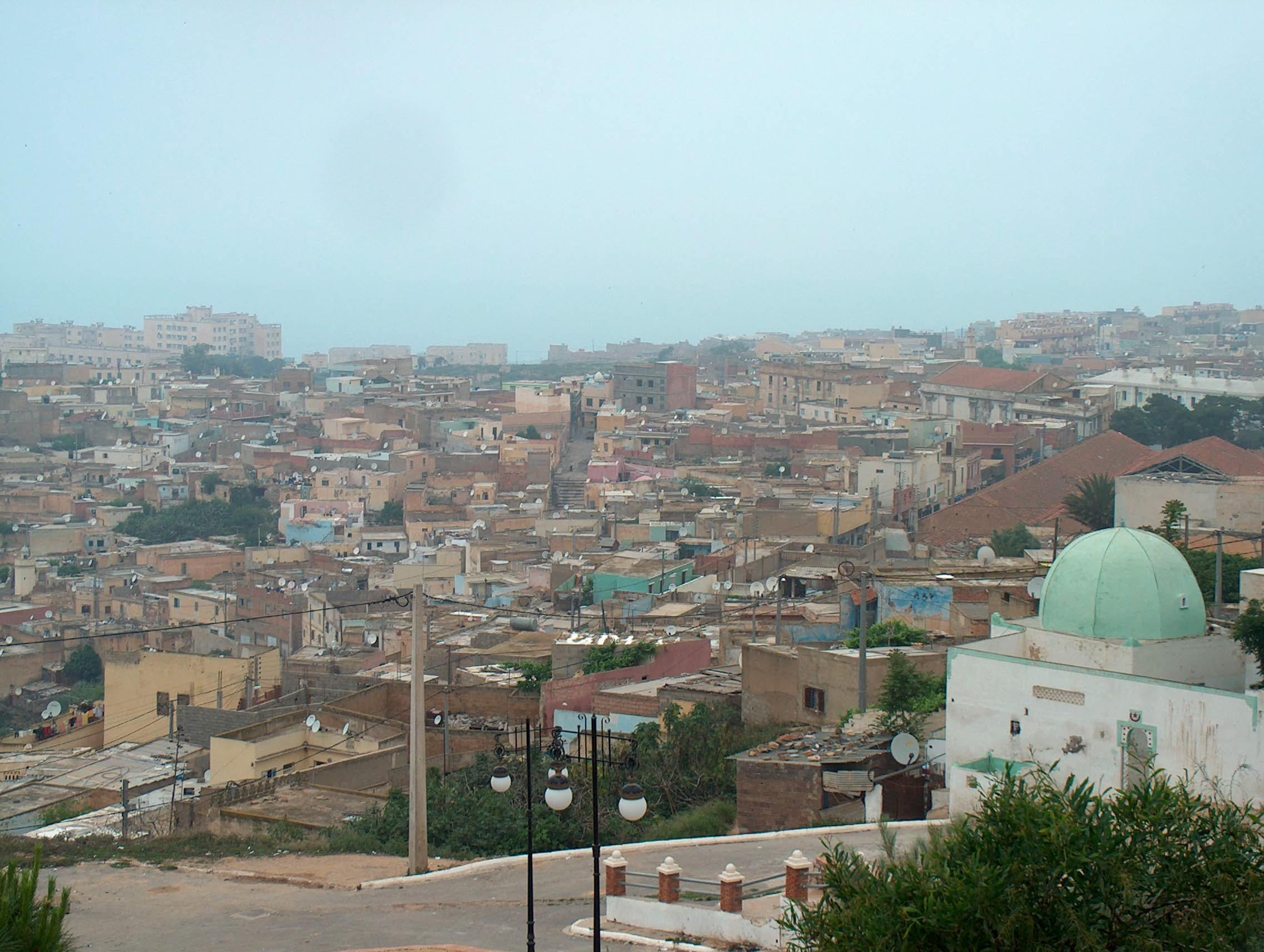 View of the old town of Mostaganem from El Arsa. Vue sur la vielle ville de Mostaganem depuis El Arssa .